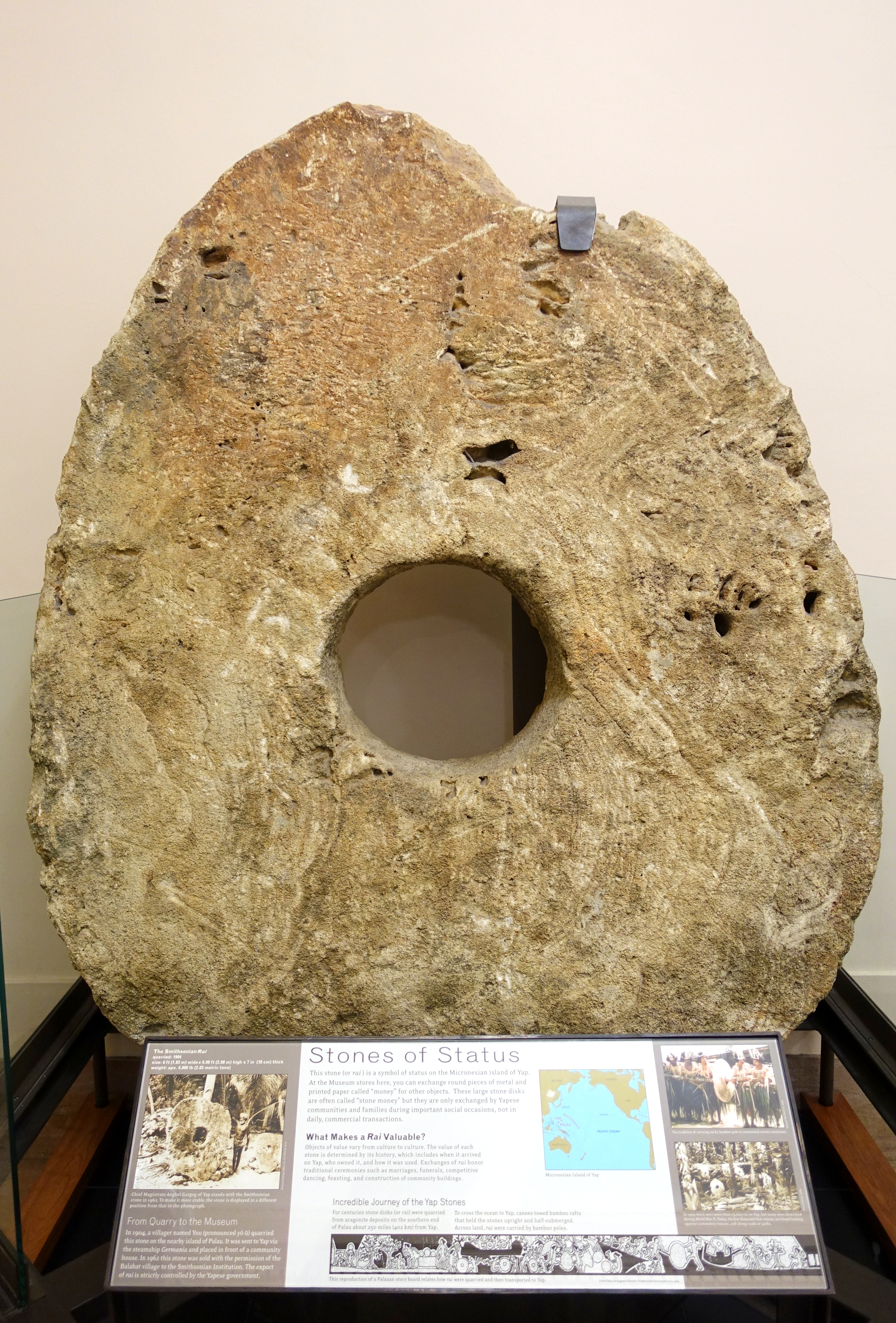 Exhibit in the National Museum of Natural History, Washington, DC, USA.